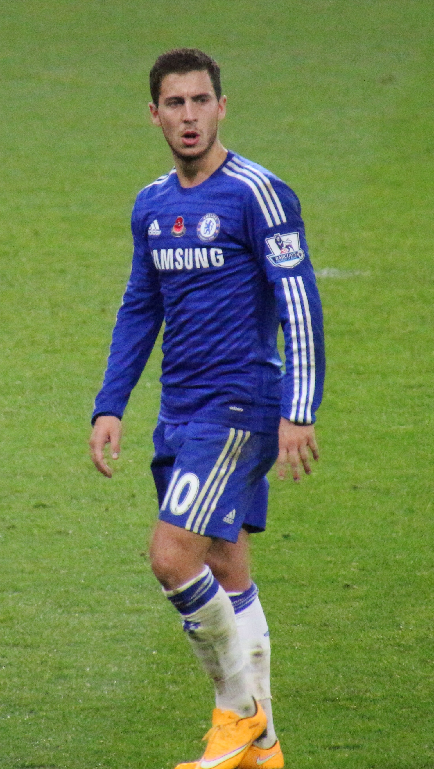 Chelsea 2 QPR 1 Premier League match between Chelsea and Queens Park Rangers at Stamford Bridge on 1 November 2014.